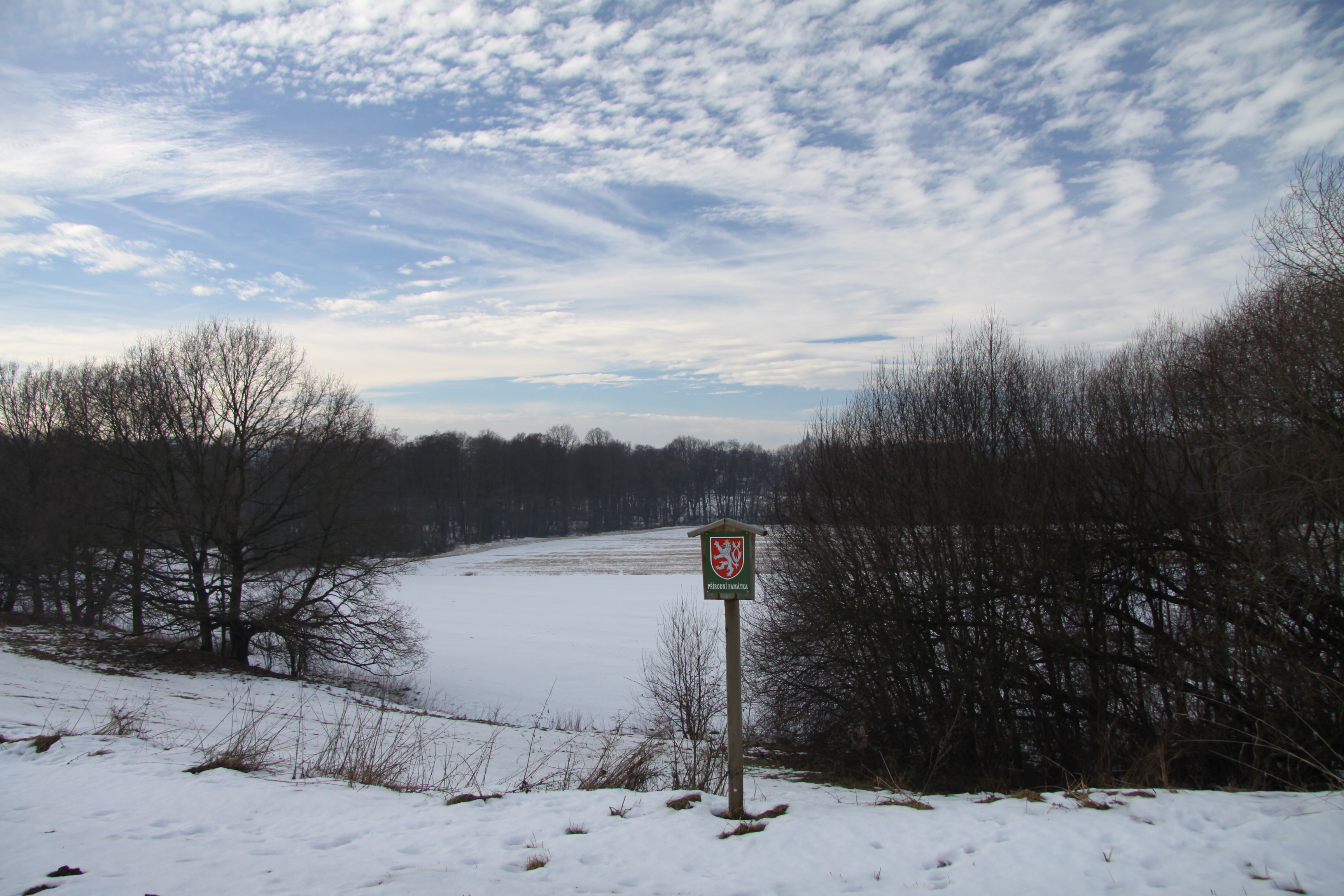 Natural monument called Bavorovská stráň near Bavorov, Strakonice District, Czech Republic - Google Maps - Google Earth